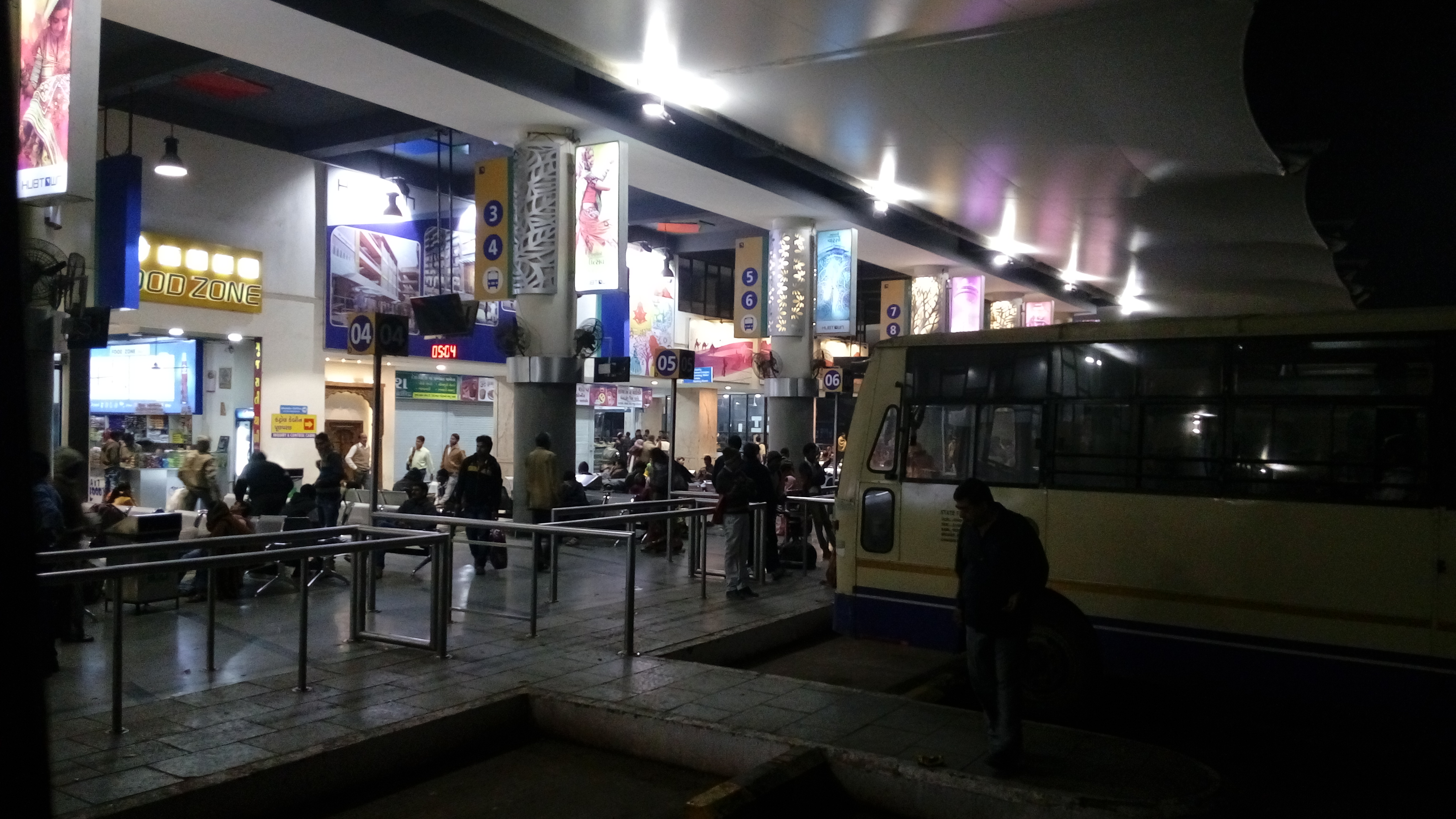 Central GSRTC Bus station of Ahmedabad, India